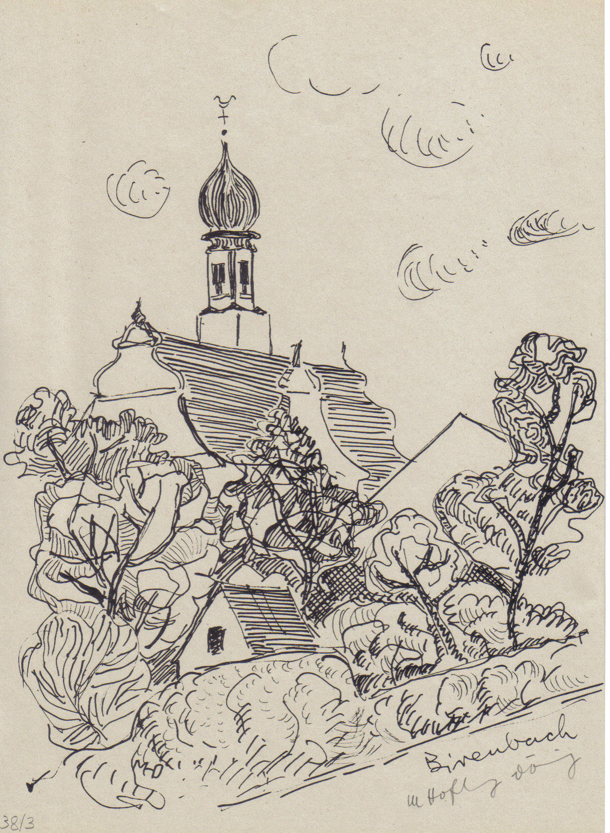 Birenbach, ink drawing, 20 x 30 cm